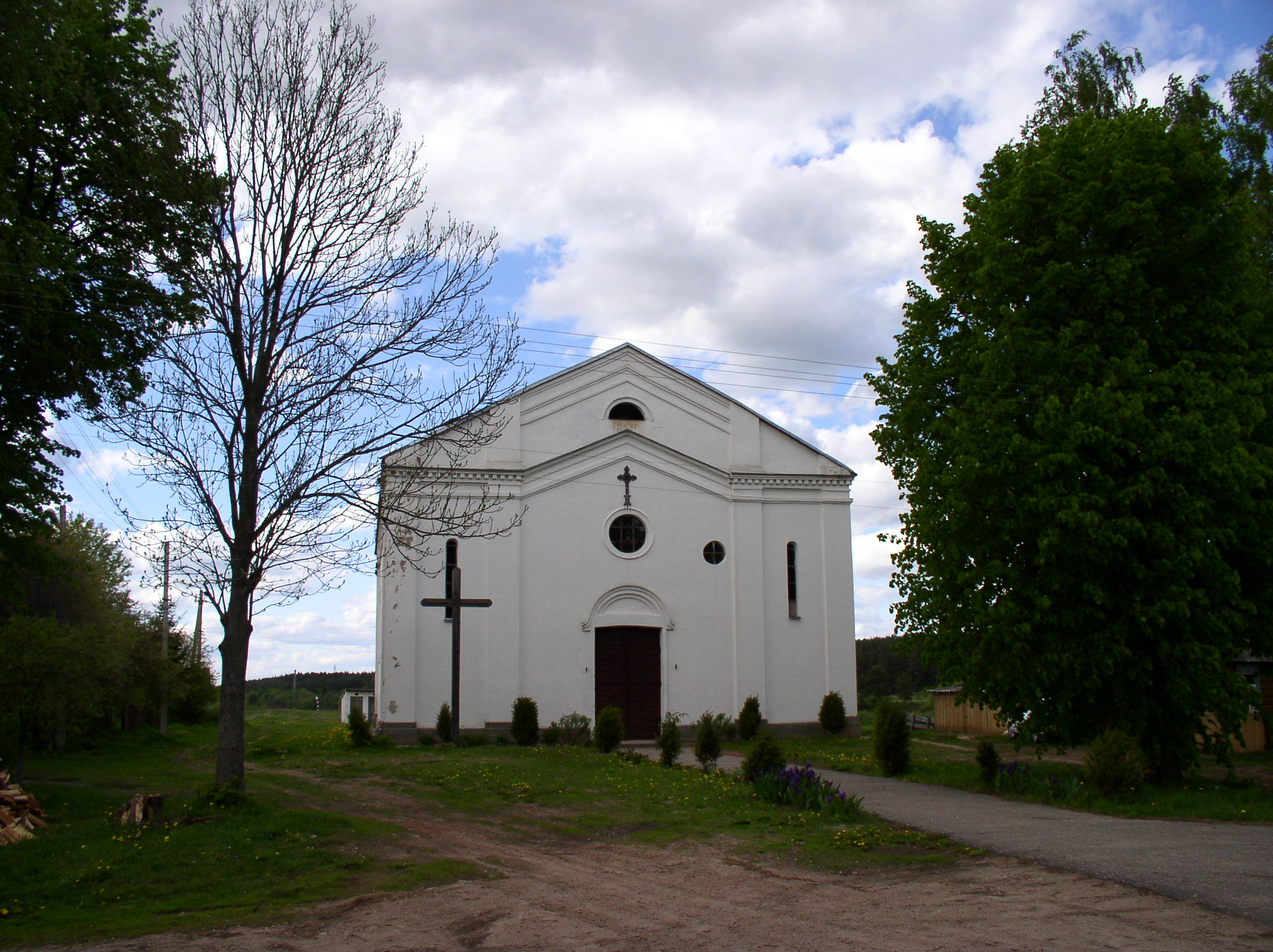 Catholic church of Holy Trinity. Ula, Belarus.